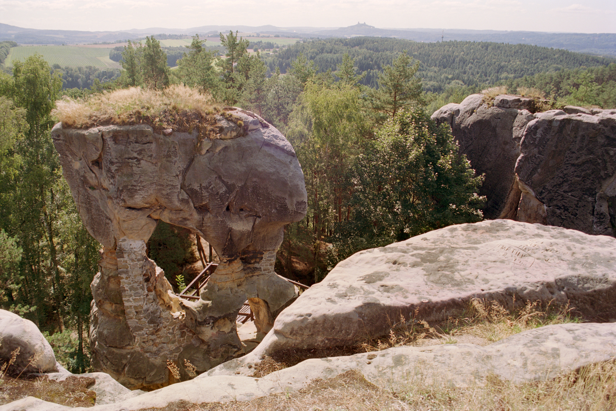 castle Rotštejn in Czech Republic, in the background castle Trosky own picture, taken in late summer 2002